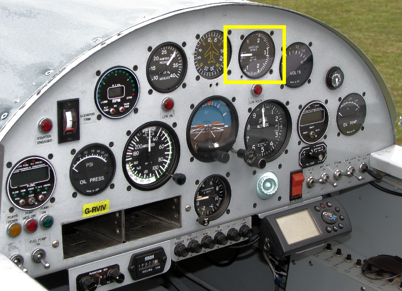 A vertical speed indicator (VSI), or variometer, mounted in the instrument panel of a Van's Aircraft RV-4 light aircraft. The aircraft is at rest on the ground. The VSI is within the yellow rectangle.